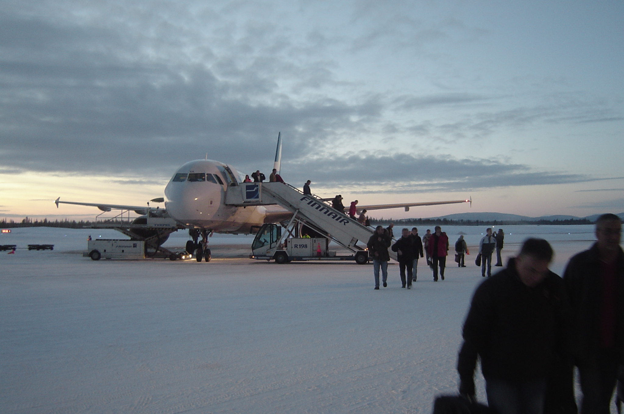 An Airbus A320 family aircraft of Finnair at Kittilä Airport (KTT/EFKT) in Kittilä, Finland